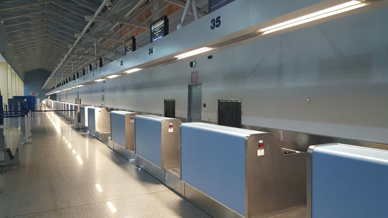 Check-in terminals at Piarco International Airport